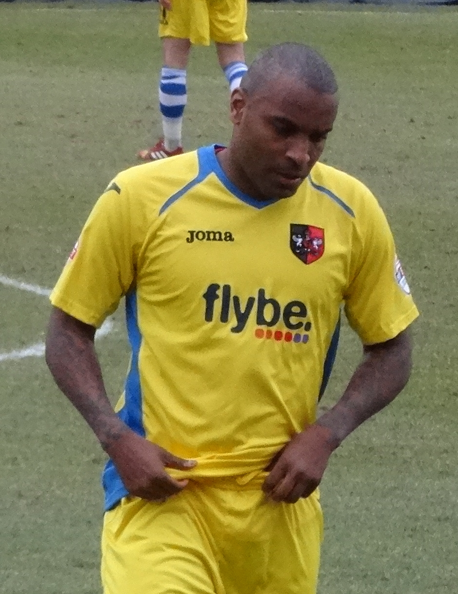 Clinton Morrison playing for Exeter City against York City at Bootham Crescent, York on 28 February 2015